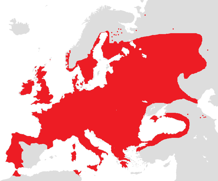 Distribution of Alnus glutinosa